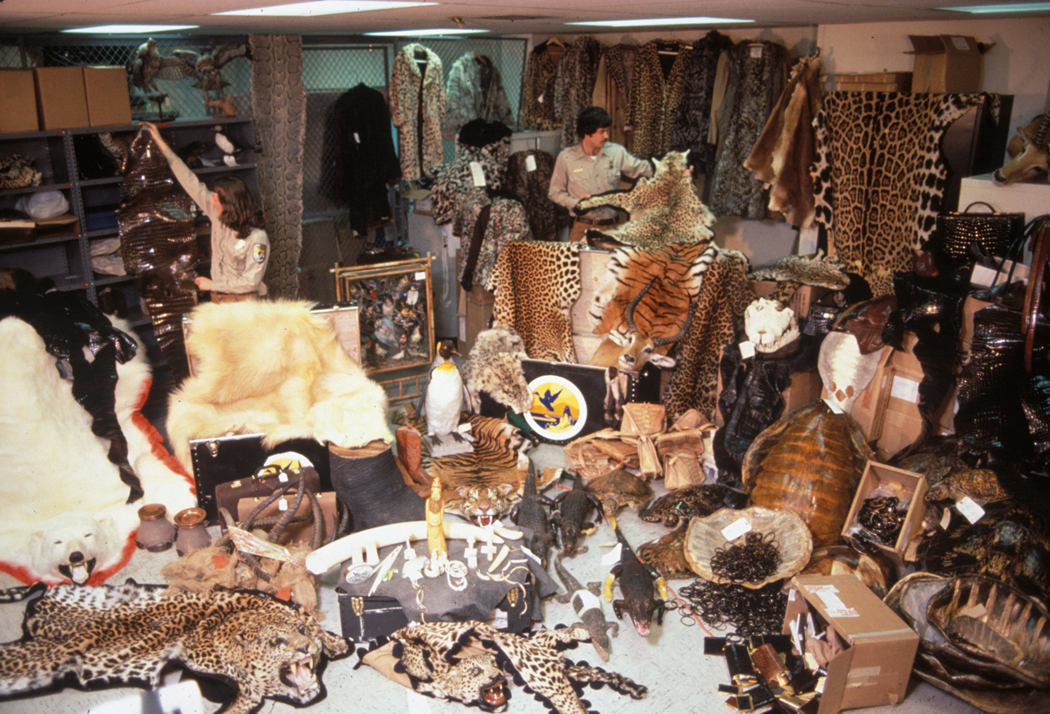 Confiscated Wildlife Products at JFK Airport